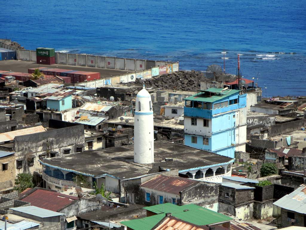 The Friday Mosque at Mutsamudu, Anjouan Island, Comoros, sits in the heart of the Medina.